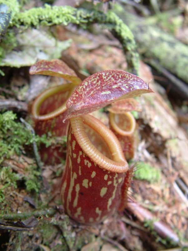 Undescribed Nepenthes species from Sulawesi